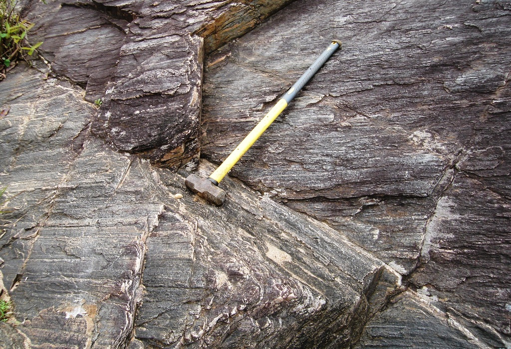 Stretching lineation on mylonitic foliation planes of an amphibolite. West of Antalaha, northern Madagascar.